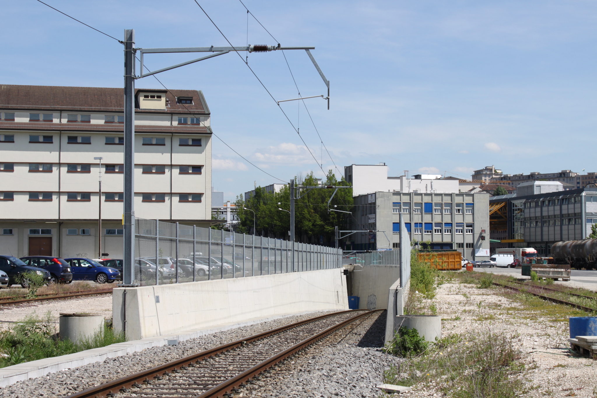 Entrance of the tunnel to Tridel incinerator at Lausanne-Sébeillon train station.